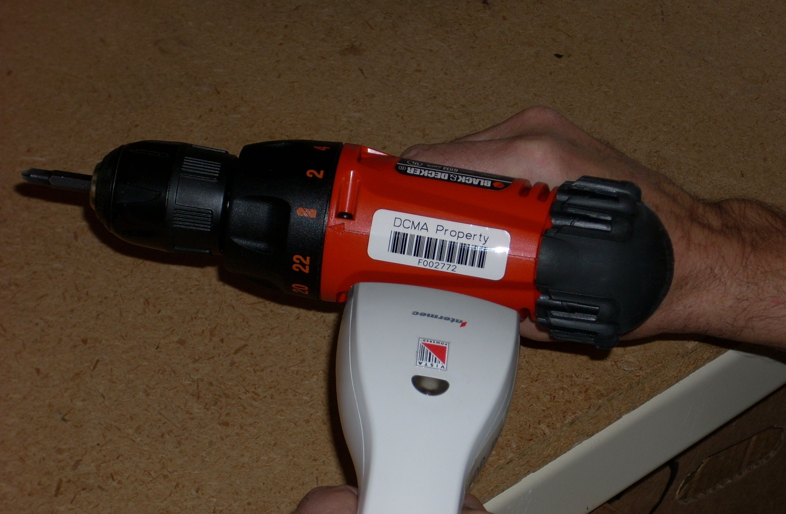 Tool with barcode